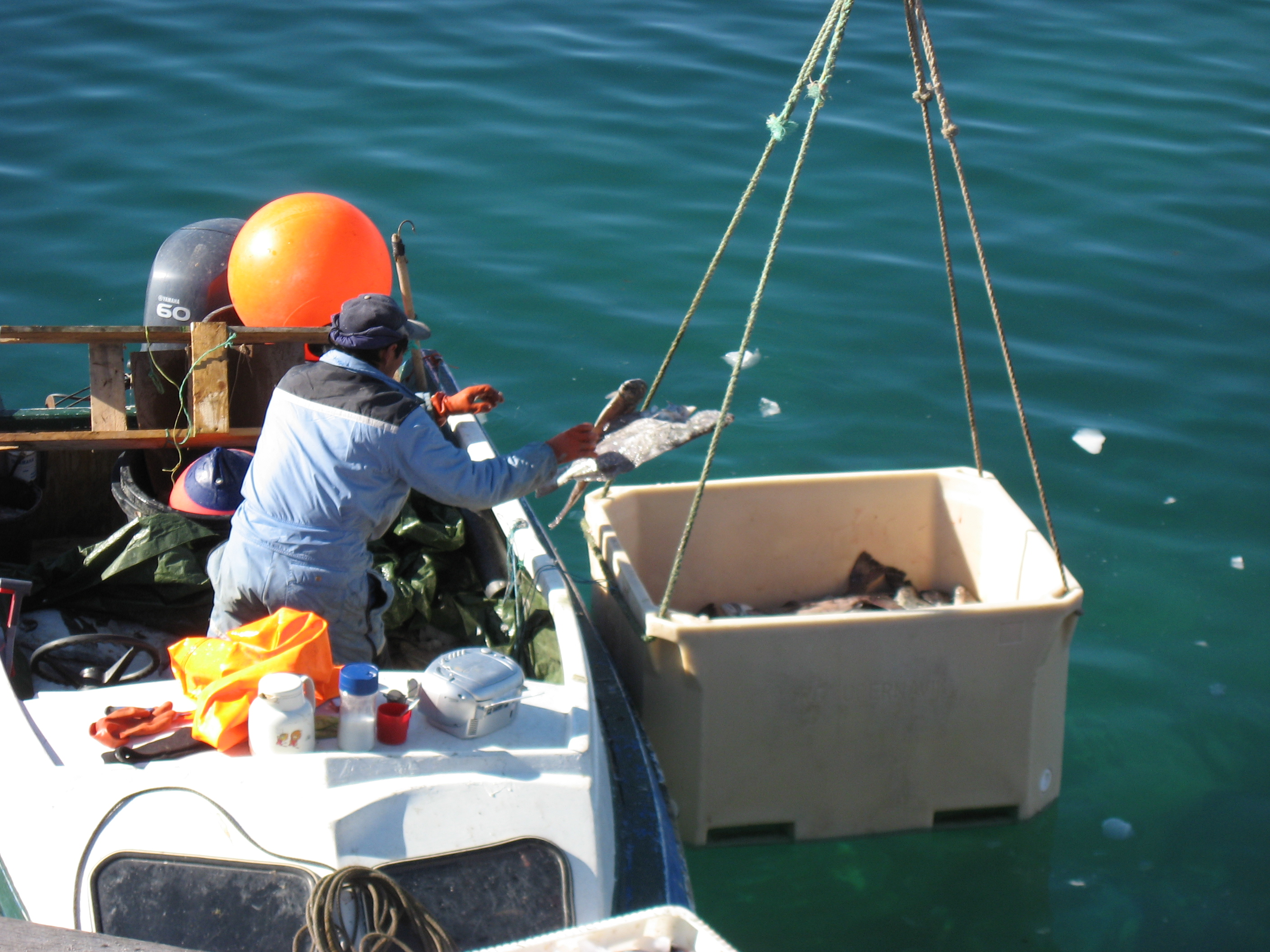 A longline fisher in Aappilattoq unloads his catch of Halibut.